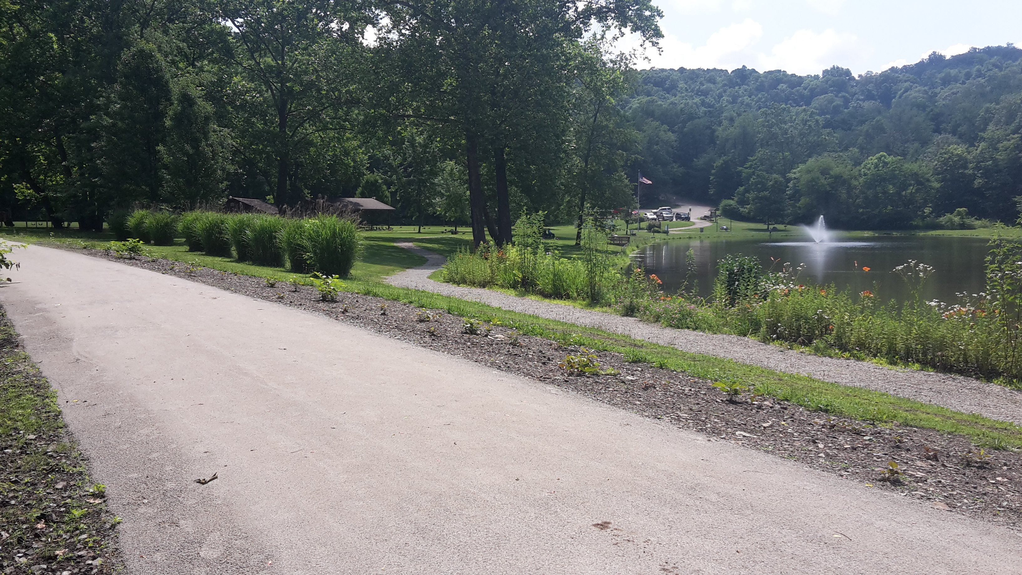 A newly completed segment of the Westmoreland Heritage Trail in B-Y Park in Trafford, PA